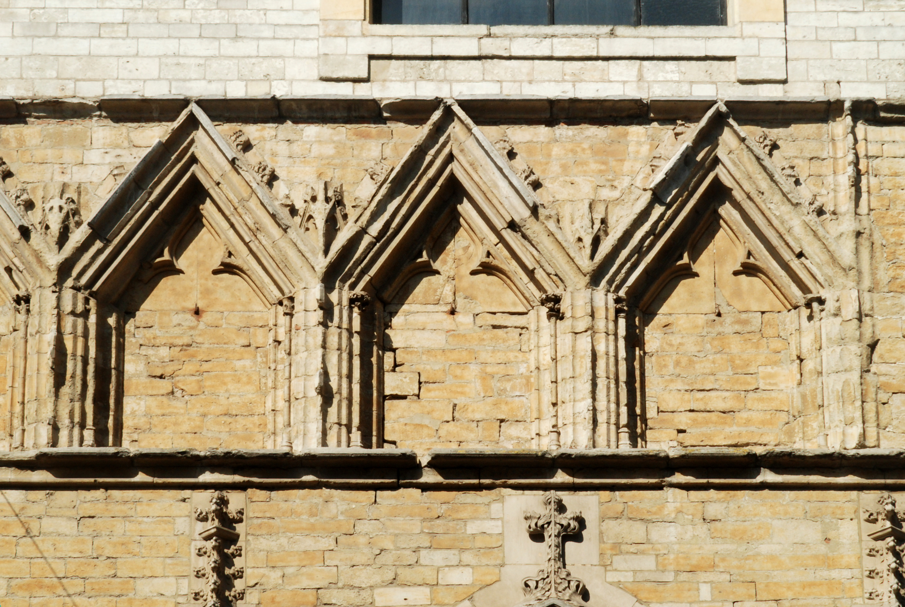 Belgium - Leuven - University Hall